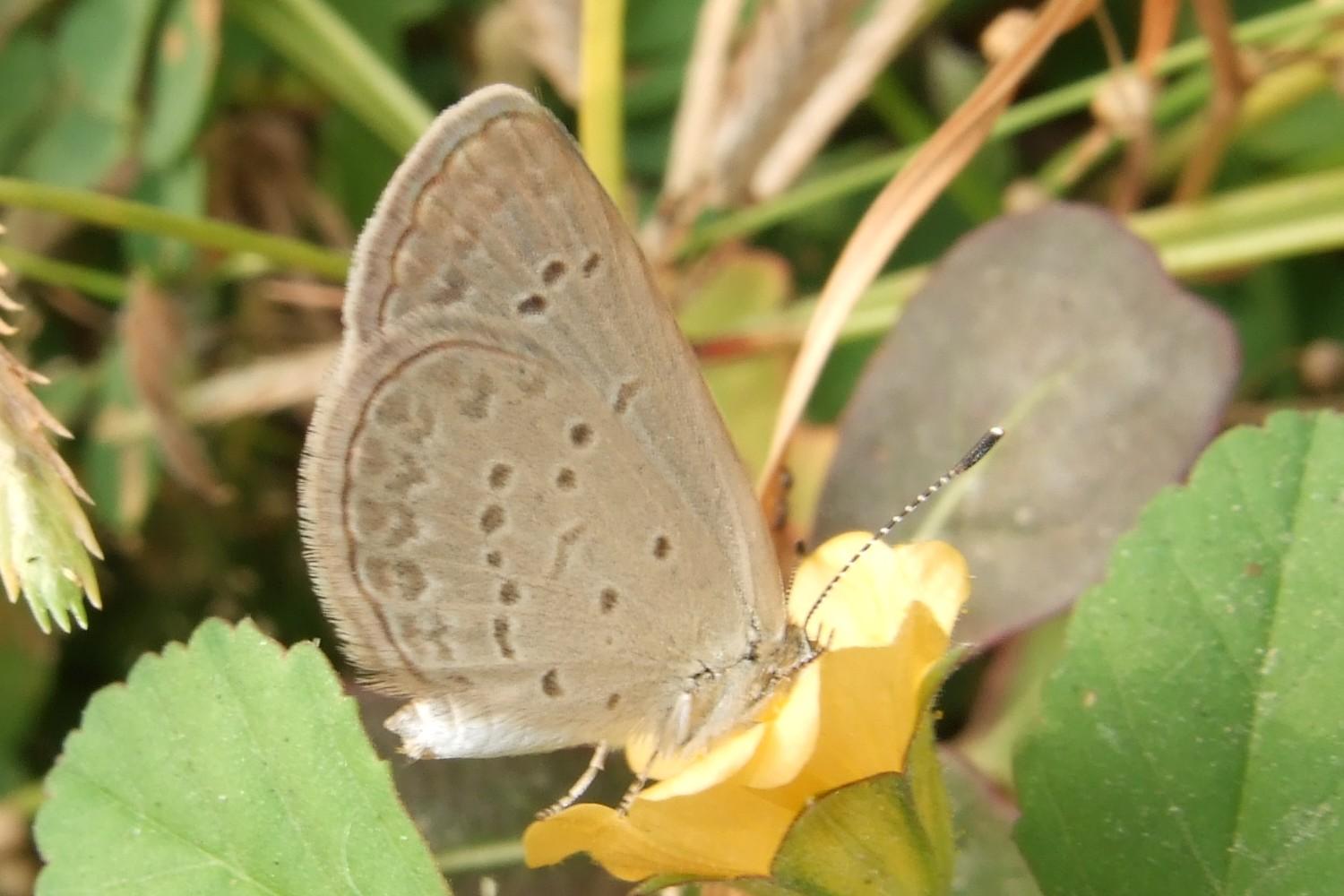 Lesser Grass Blue, Zizina otis